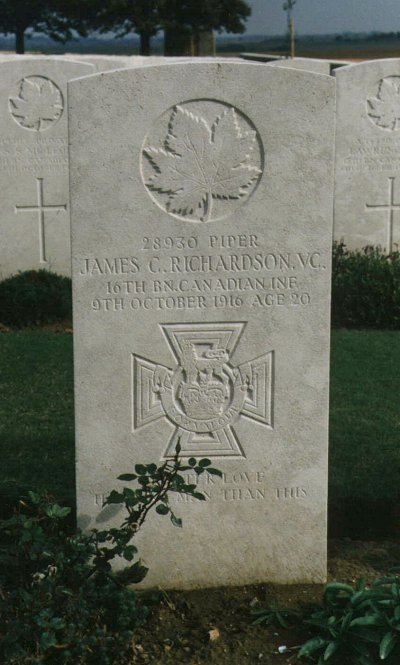 Grave photo of Victoria Cross recipient James Cleland Richardson